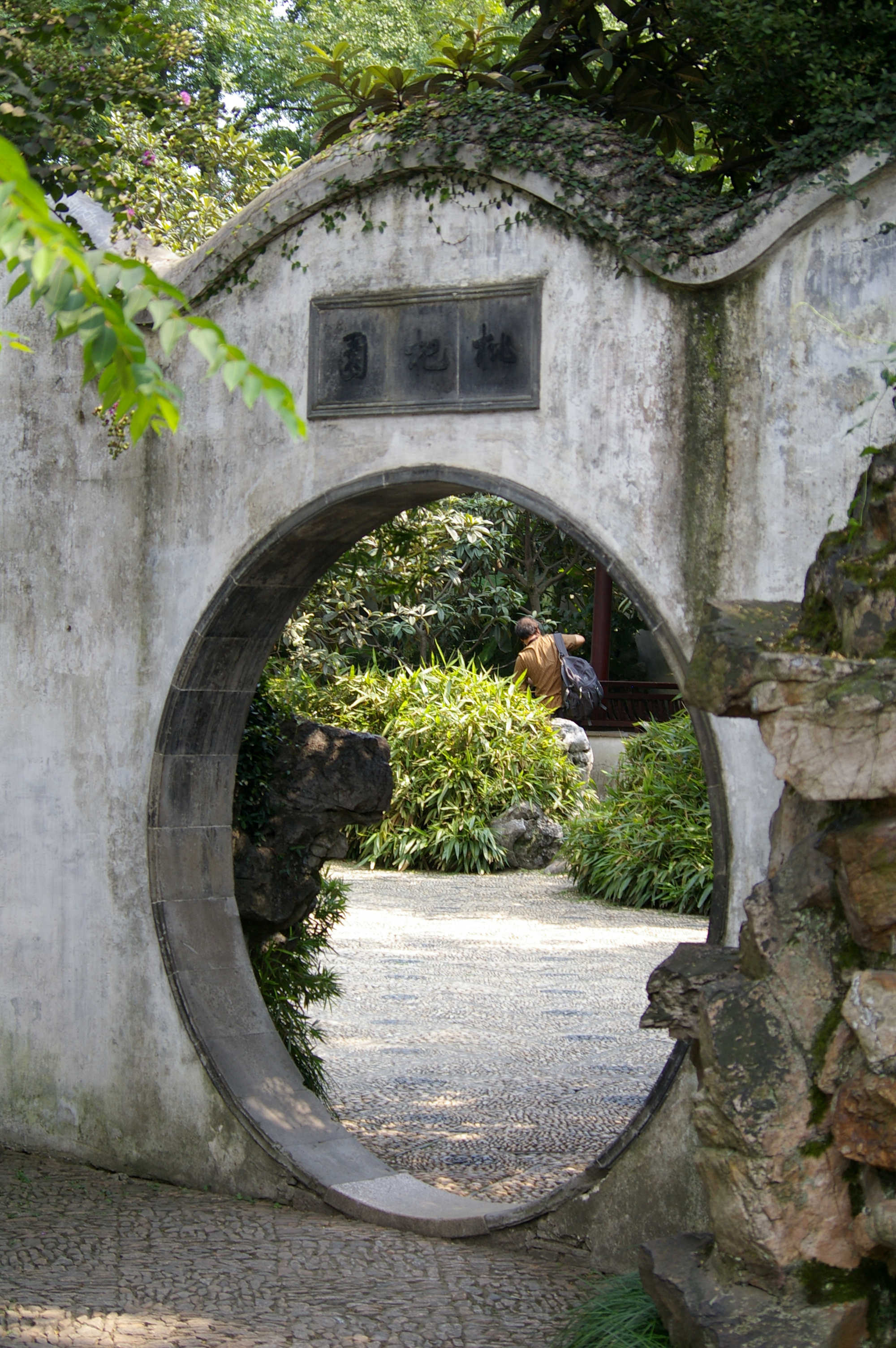 Humble Administrator's Garden in Suzhou